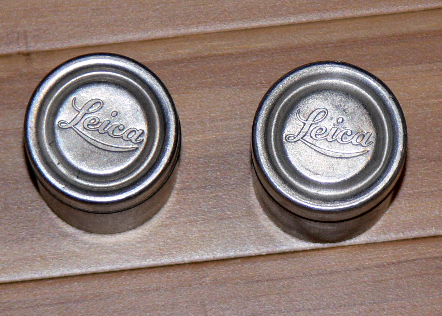 Leica film container